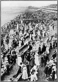 Ascot, Royal Enclosure, 1907, a general view of that most exclusive of places on cup day